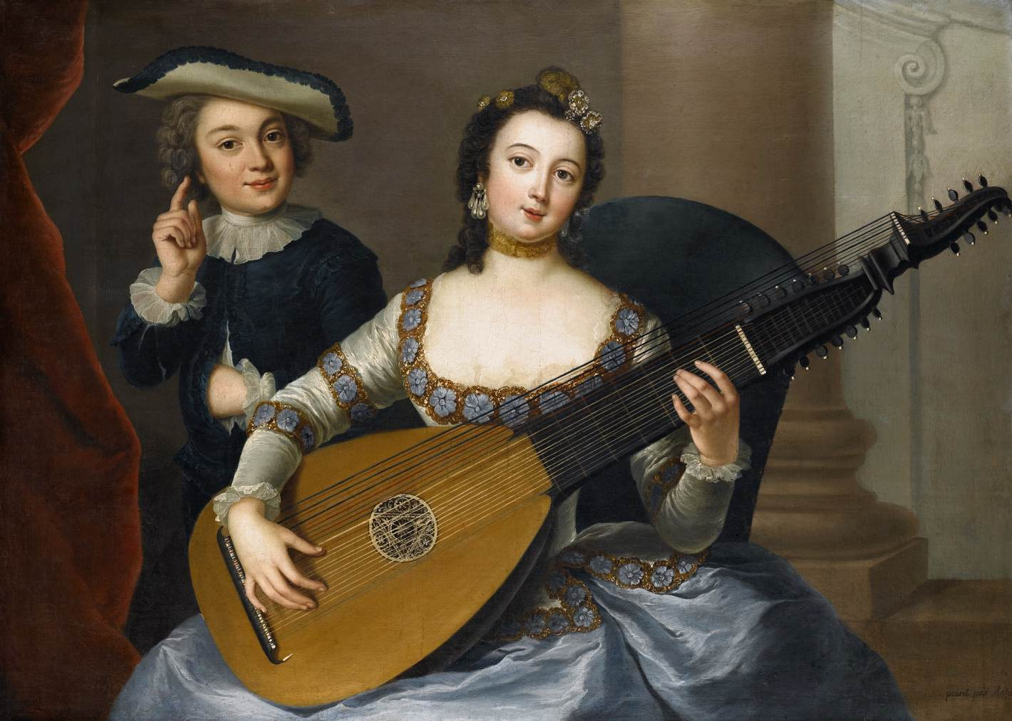 Woman playing a lute PROPERTY RESTITUTED TO THE HEIRS OF SIGMUND WASSERMANN Anna Rosina von Lisiewska AN ALLEGORY OF HEARING Anna Rosina von Lisiewska BERLIN 1716 - 1783 DRESDEN AN ALLEGORY OF HEARING signed lower right: peint par Rosine oil on canvas 96.5 by 135 cm.; 38 by 53 1/8 in. Anonymous sale, Amsterdam, Frederik Muller & Co., 25-28 February 1941, lot 822; Dr Sigmund Wassermann, Amsterdam; C.F. van Veen, Amsterdam (acting as agent for Wassermann); With Galerie P. de Boer, Amsterdam (on consignment from the above; purchased from the above in April 1941 for Hfl. 1,000); Städtisches Museum, Nuremberg (acquired from the above in May 1941); Returned to The Netherlands after World War Two; Netherlands Art Property Collection (inv. no. NK 1931); Museum Het Markiezenhof, Bergen op Zoom, The Netherlands (on loan); Restituted to the heirs of Sigmund Wassermann in 2008.